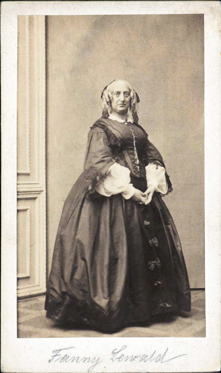 Portrait of Fanny Lewald Stahr